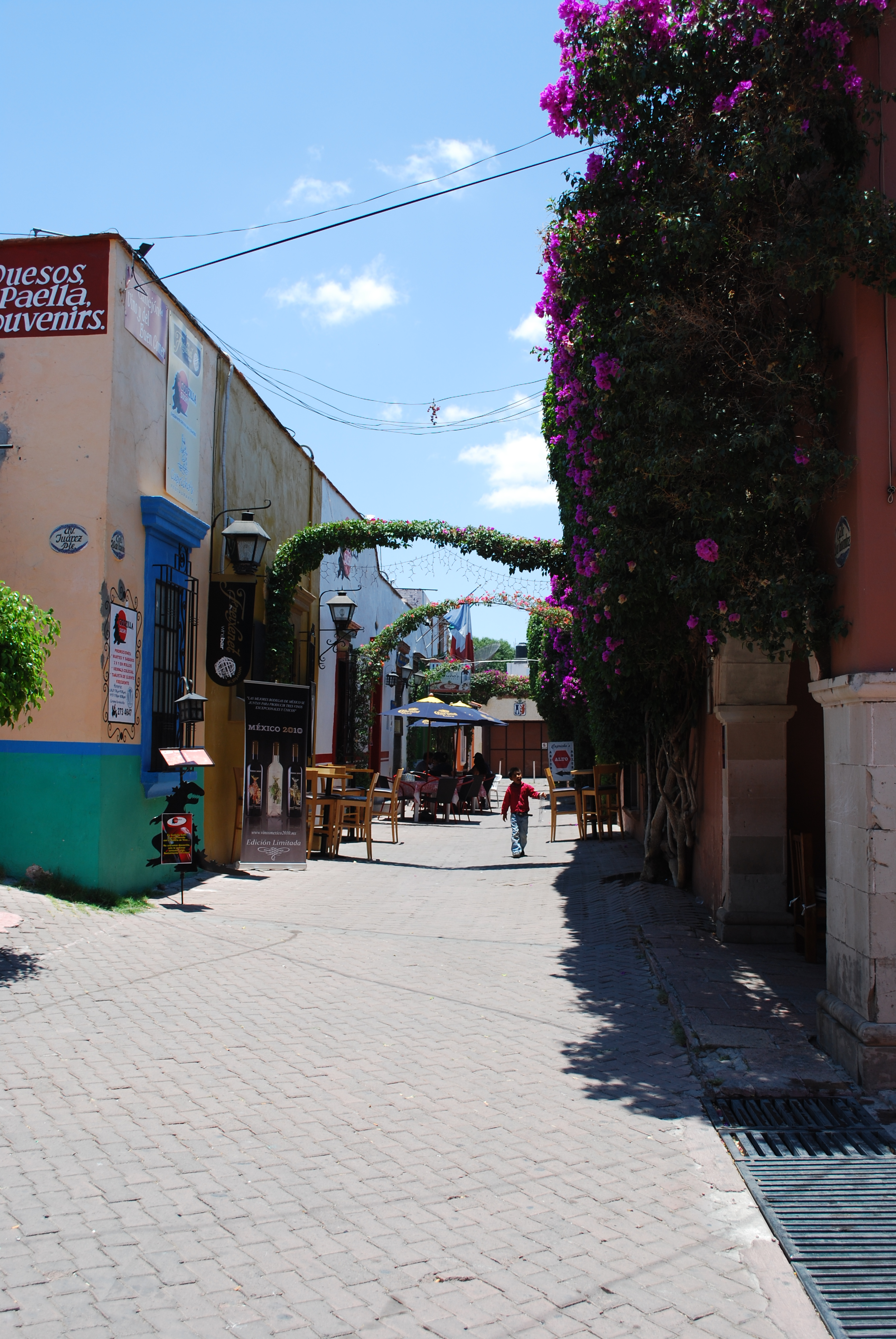 Guillermo Prieto Street in Tequisquiapan, Queretaro, Mexico